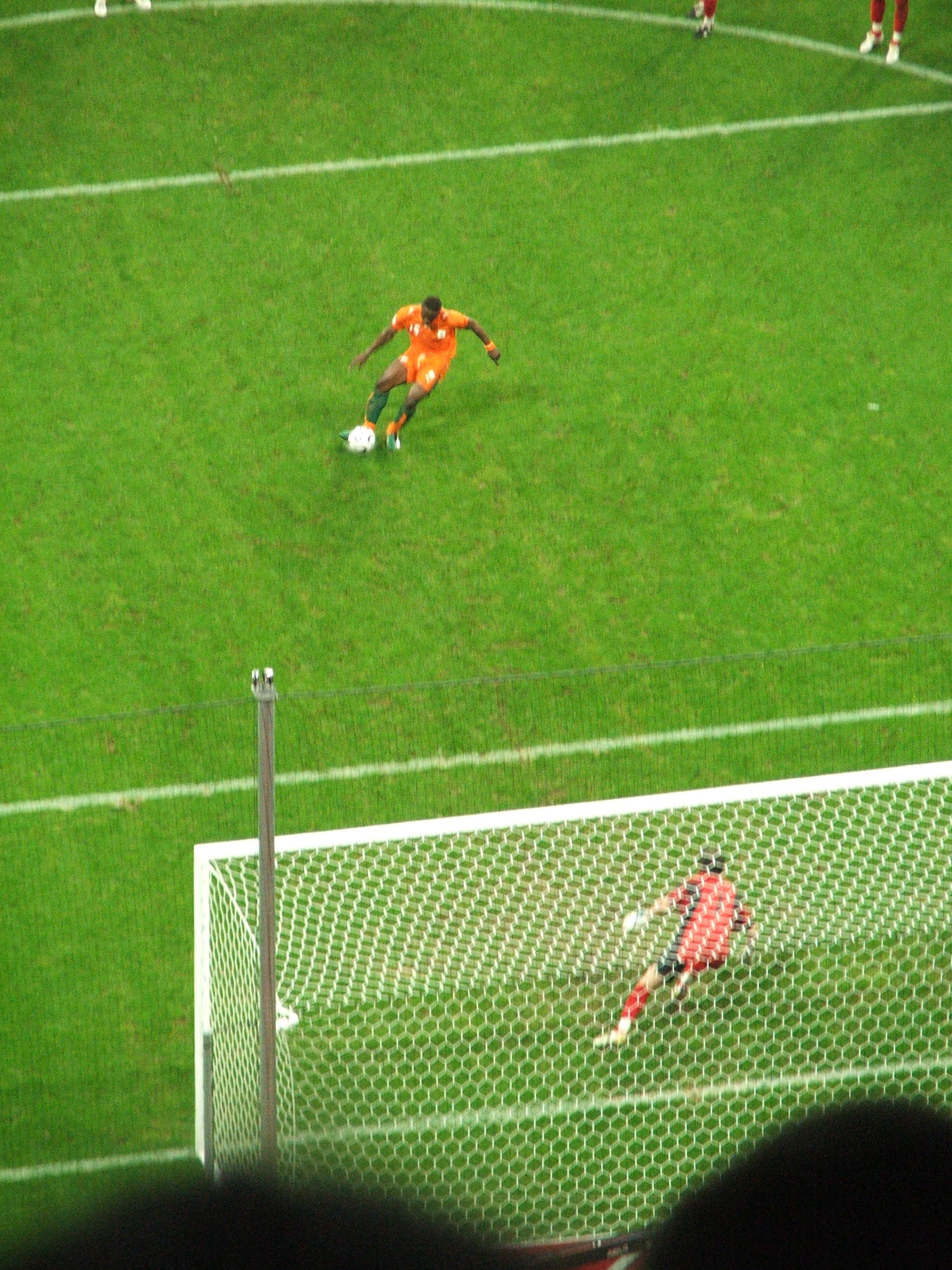 Aruna Dindane, Côte d'Ivoire vs Serbia and Montenegro, on June 21, 2006 at the world cup 2006